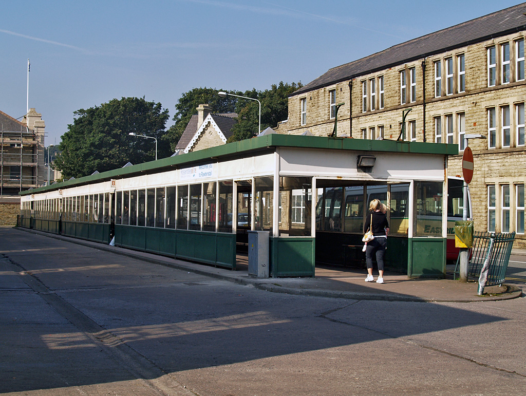 Bacup Road bus station, Rawtenstall with Rossendale Transport Limited 1 BX04 MZU, a Mercedes Sprinter built 2004 with a Koch B15F+3 body awaiting departure. Thursday 18th September 2008